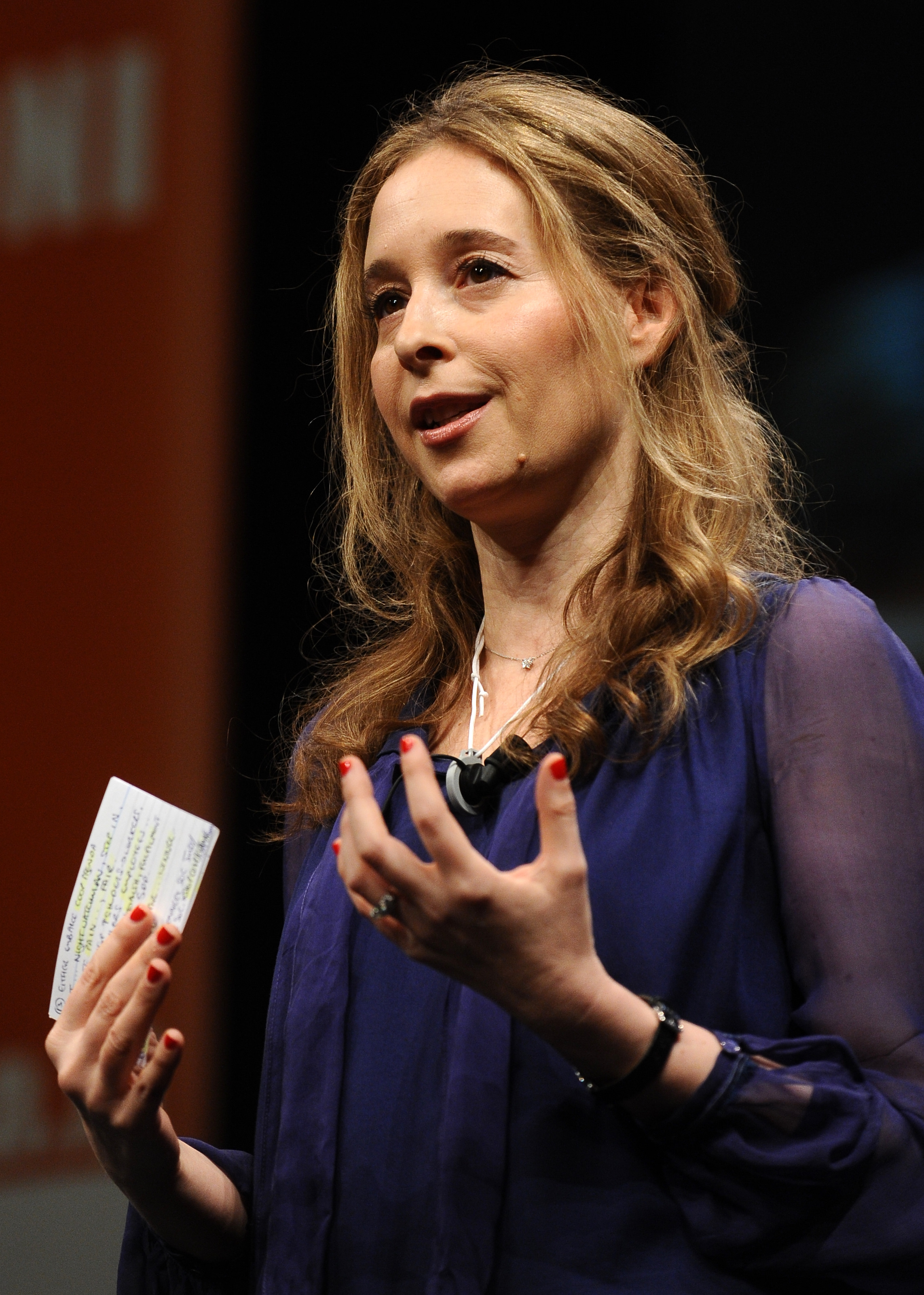 Noreena Hertz at the Festival of Economics 2012 - Trento